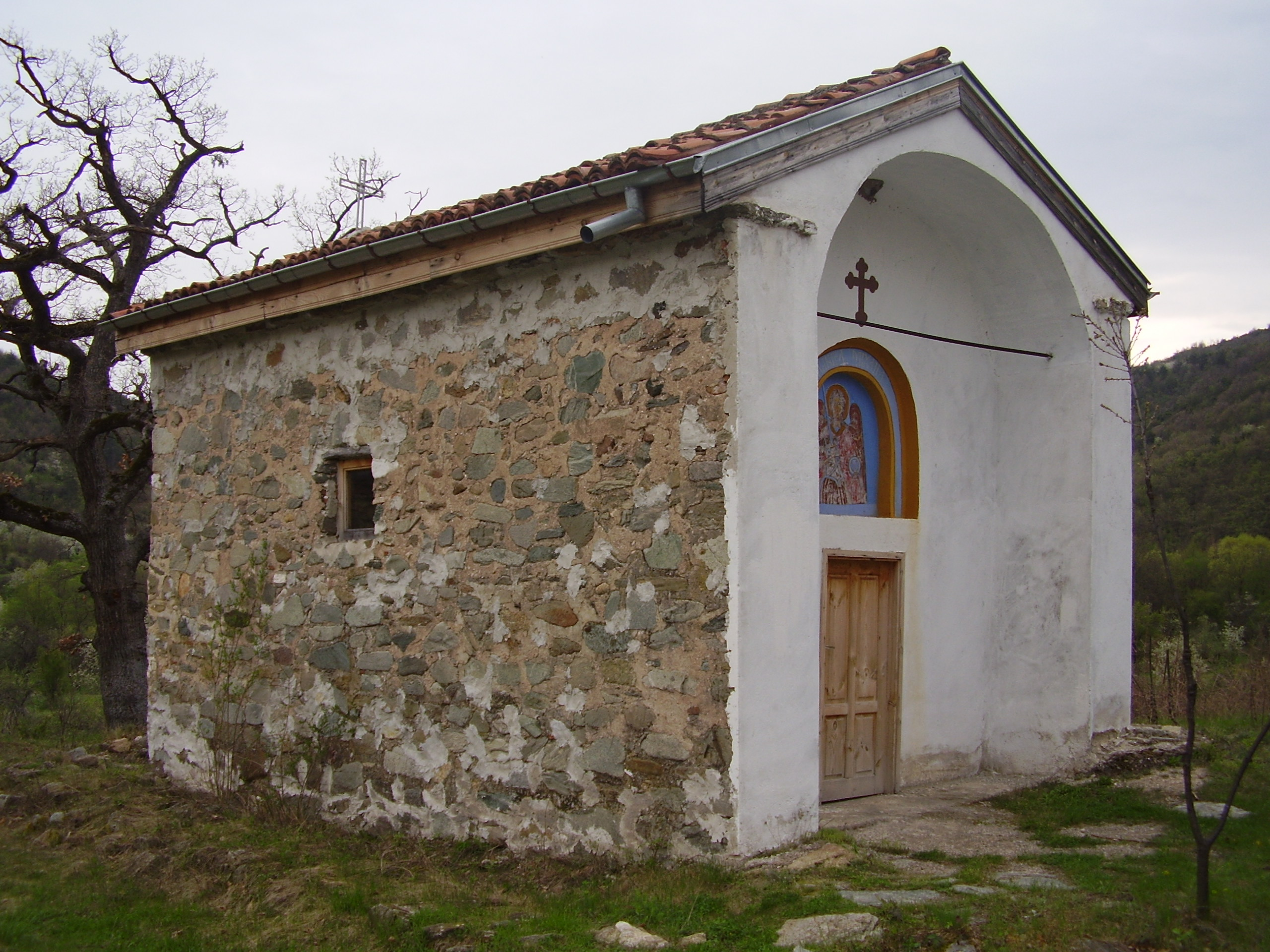 Goranovtsi, Kyustendil District